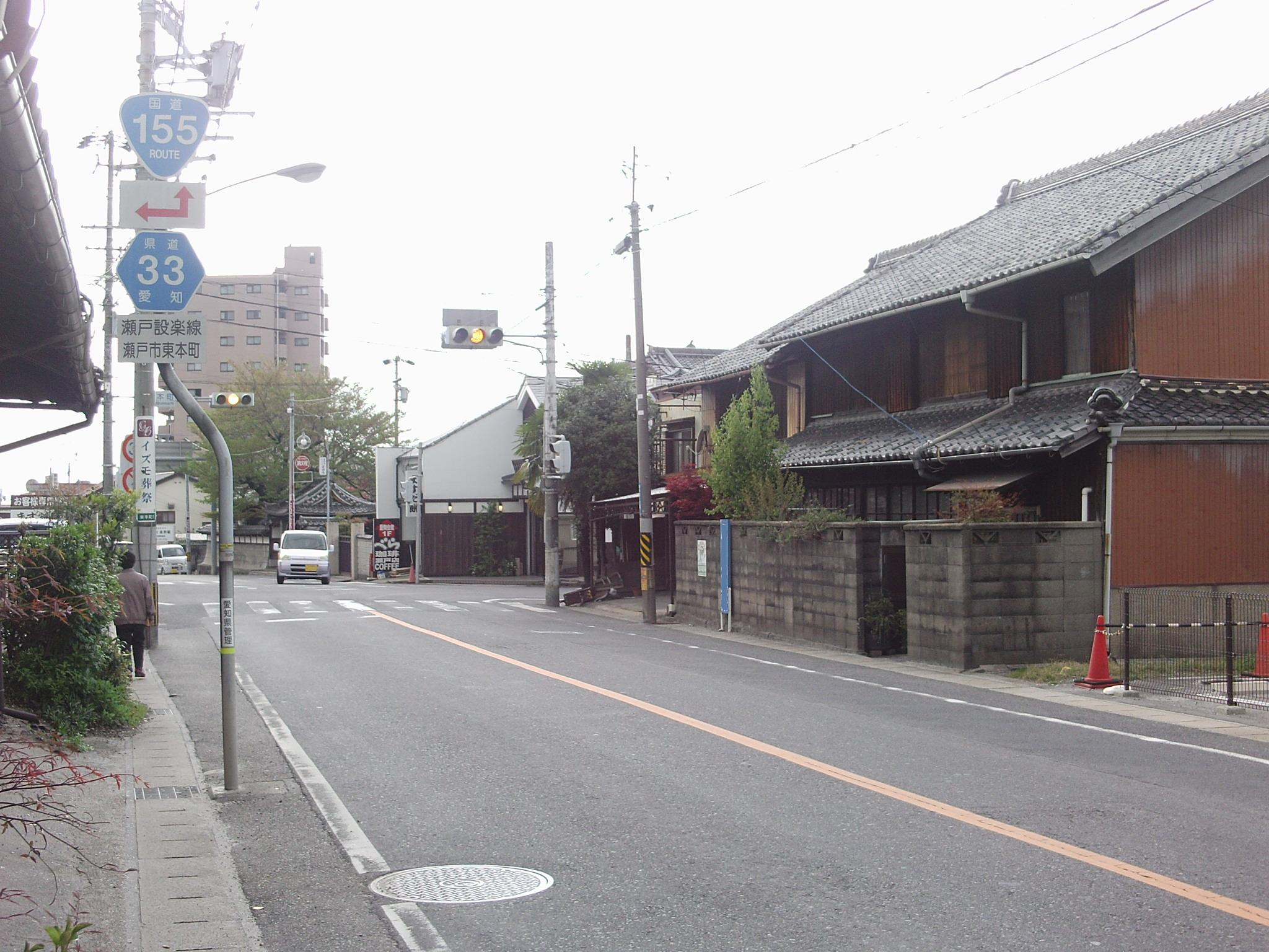 Aichi prefectural road No.33 in Higashihonmachi, Seto, Aichi.